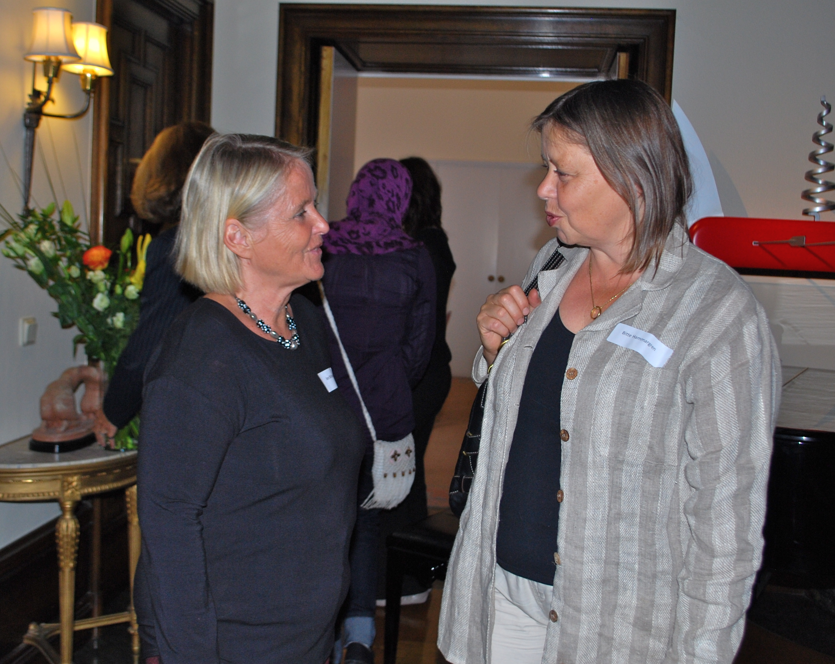 Ann Wilkins from the Swedish Committee for Afghanistan and Bitte Hammargren of SVD greet each other.